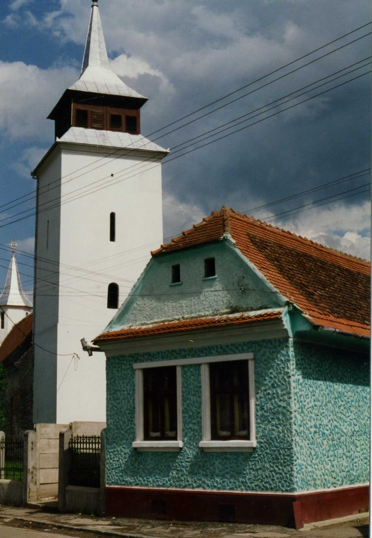 the St. Nicholas orthodox church in Zărnești, Brașov County, Romania 01